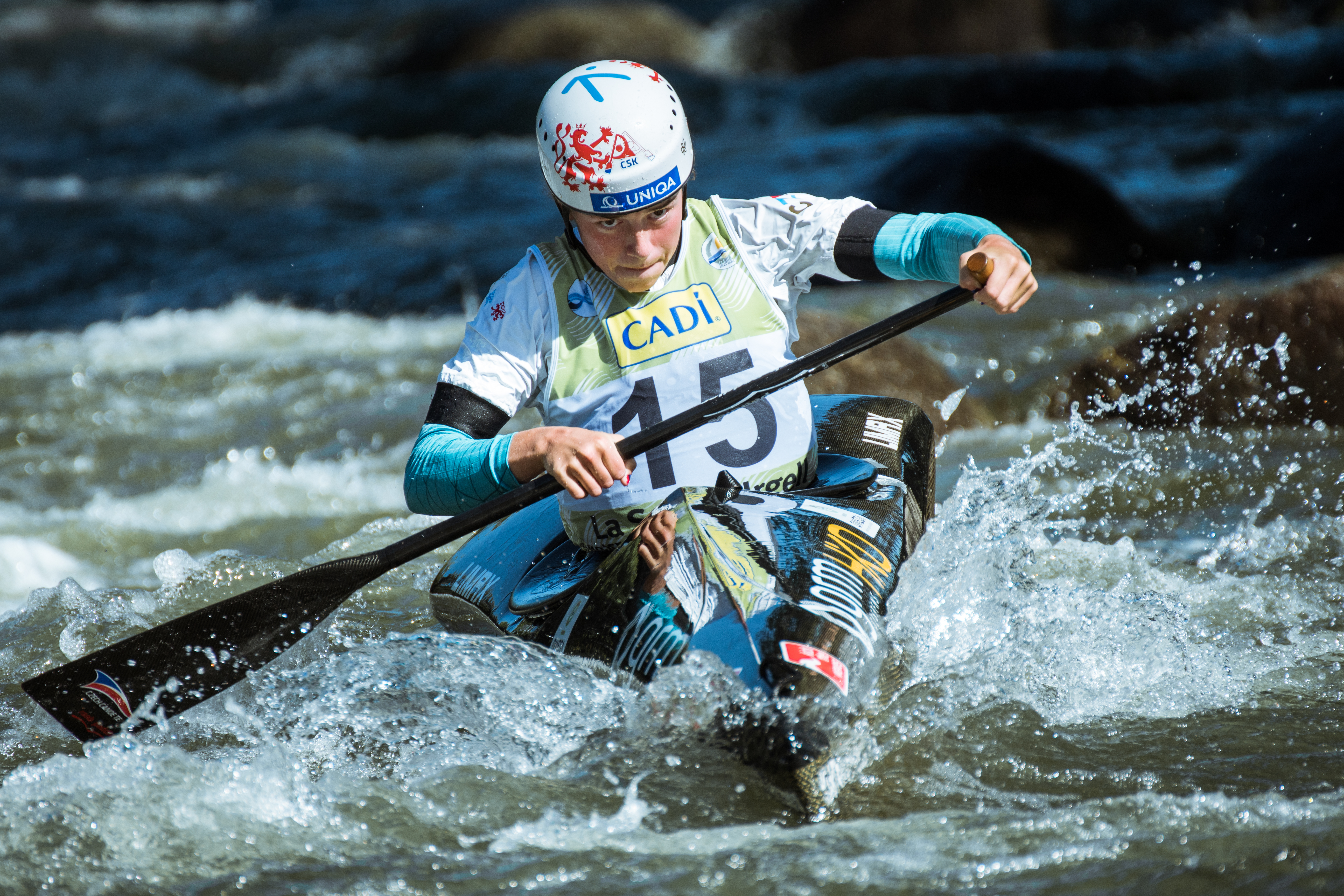 Tereza Kneblova during the 2019 Canoe Wildwater World Championships in La Seu d'Urgell, Spain.